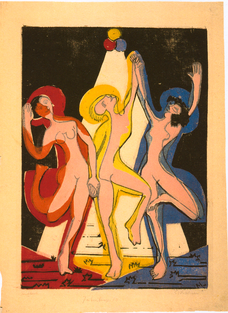 Colourful dance - Colour-woodcut - 50 x 35,5 cm - Städel Museum, Frankfurt am Main